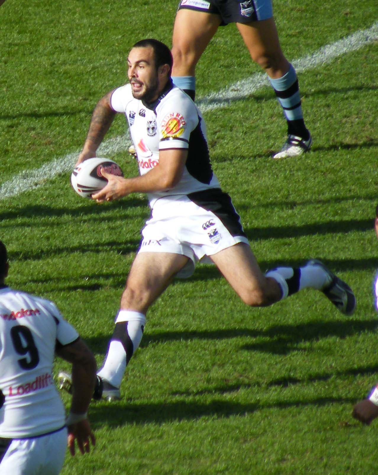 Wade McKinnon of the New Zealand Warriors.